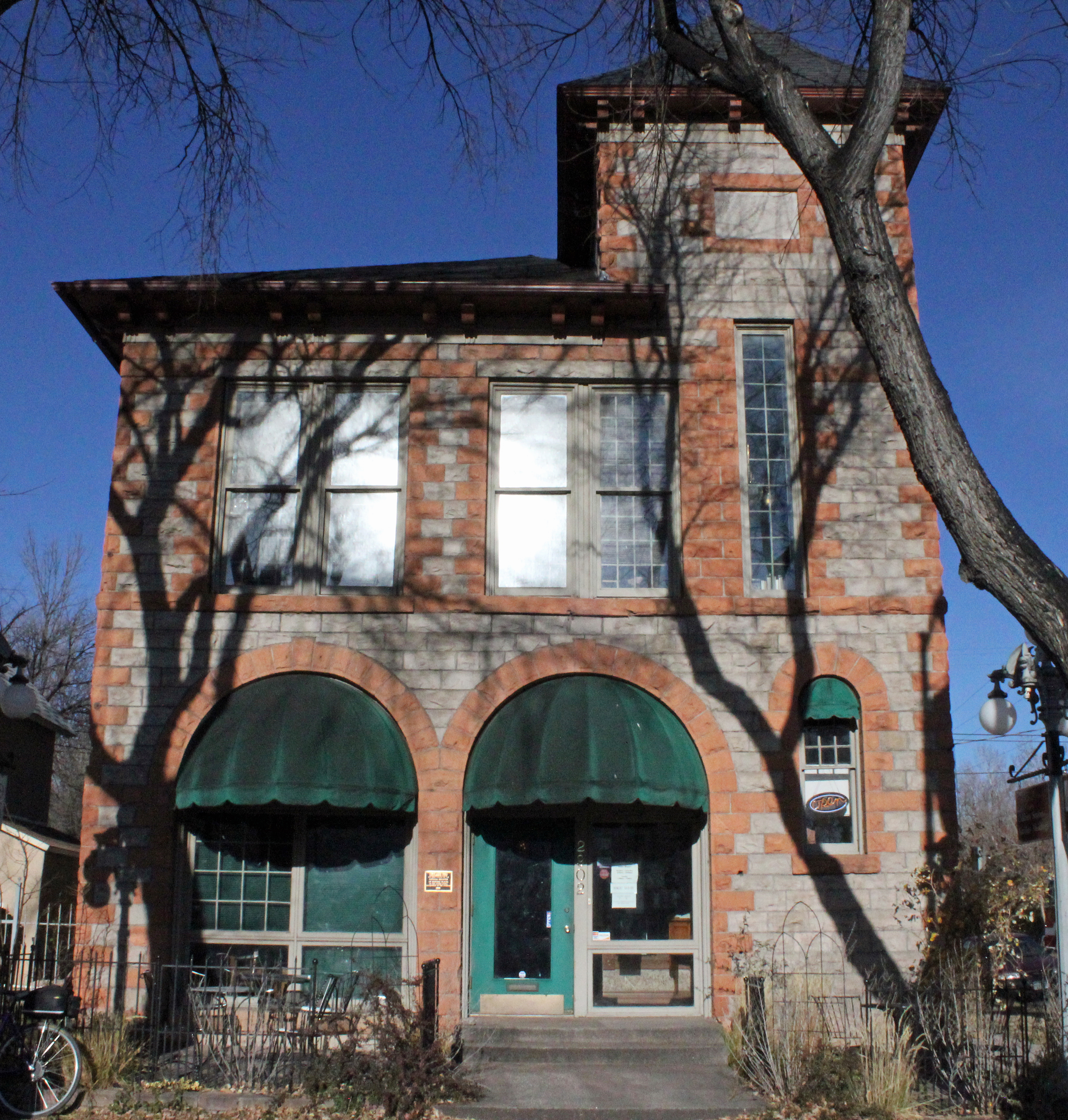 The City Hall of Colorado City, located at 2902 West Colorado Avenue in Colorado Springs, Colorado. The property is listed on the National Register of Historic Places.